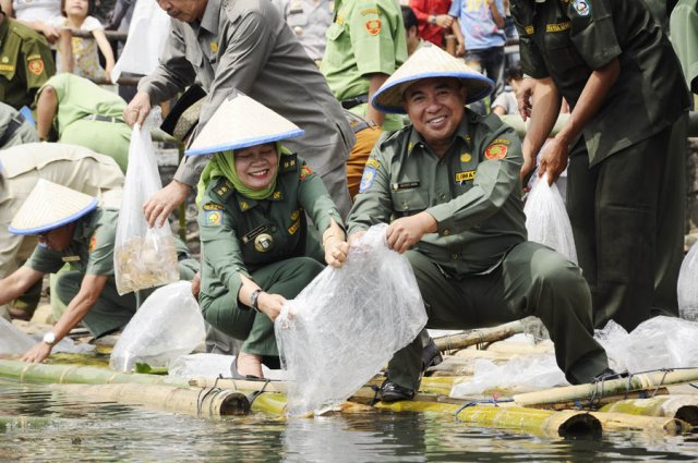 Major Bando Amin at local fish farm